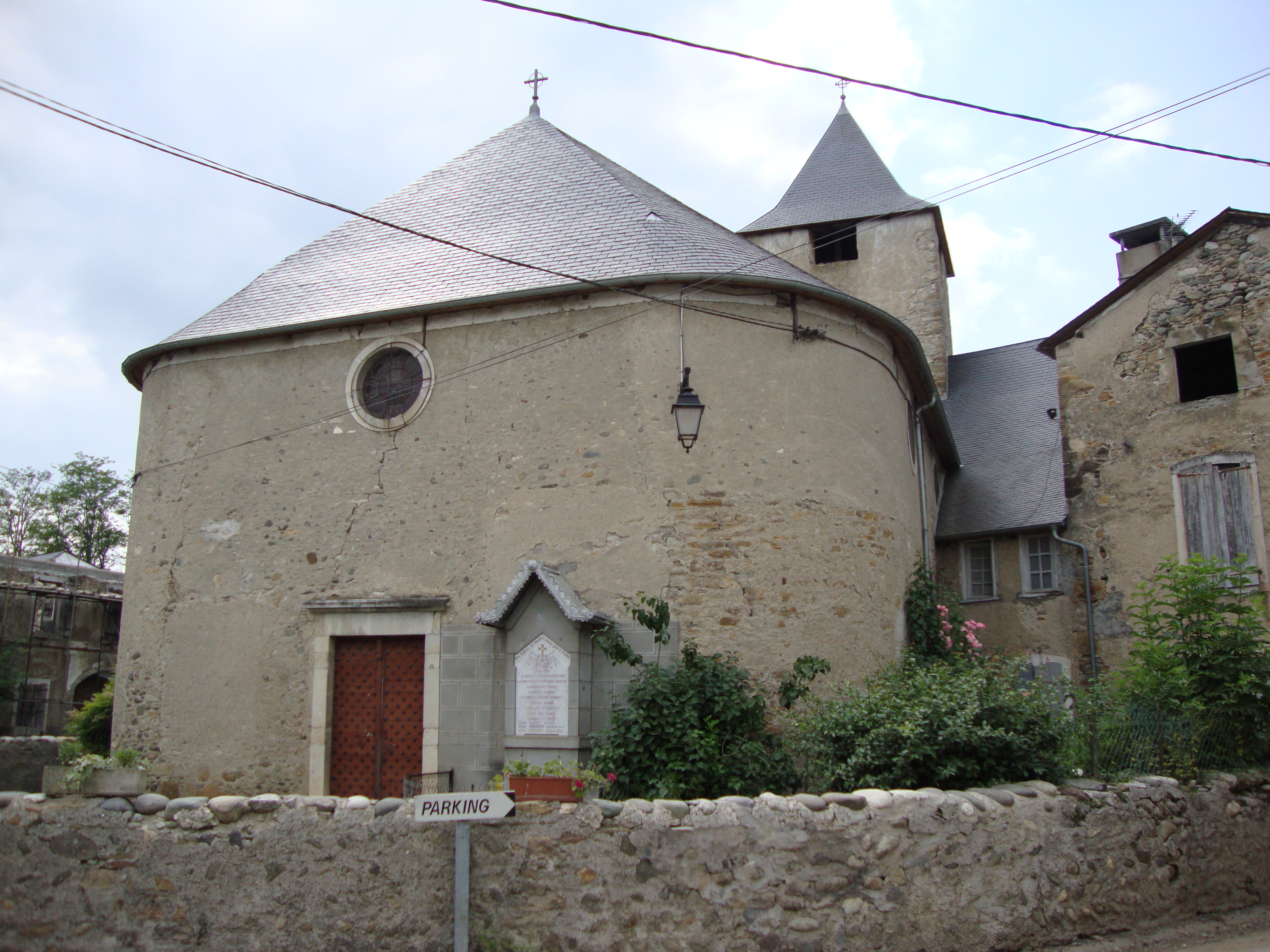 Verdets (Pyr-Atl, Fr) church